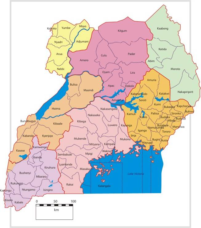 Map of Uganda showing the new administrative divisions